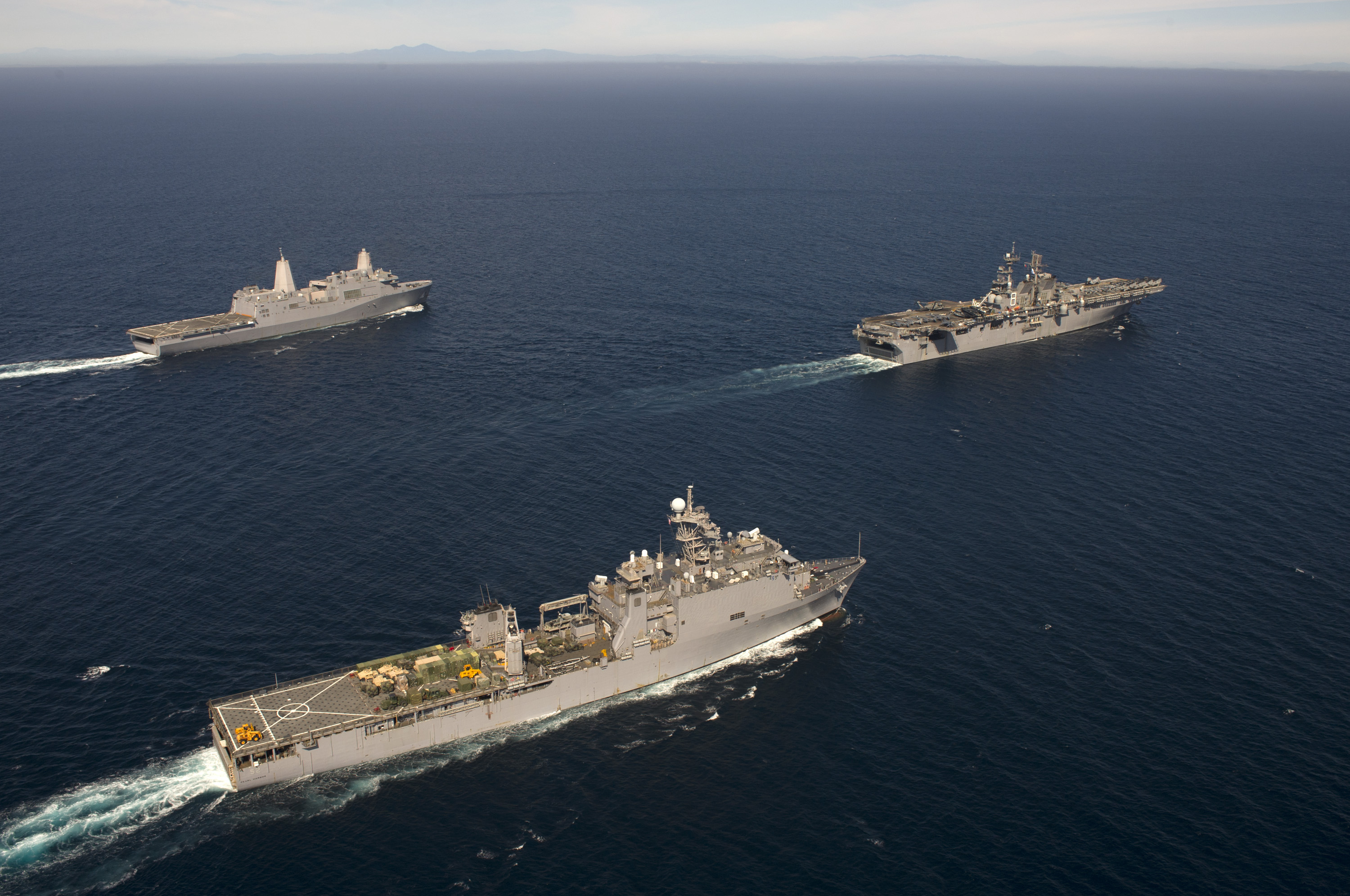 PACIFIC OCEAN (Oct. 11, 2011) The amphibious dock landing ship USS Pearl Harbor (LSD 52), front, the amphibious assault ship Makin Island USS Makin Island (LHD 8) and the amphibious transport dock ship USS New Orleans (LPD 18) transit off the coast of southern California. The Makin Island Amphibious Ready Group is underway for a certification exercise preparing for an upcoming deployment. (U.S. Navy photo by Chief Mass Communication Specialist John Lill/Released)